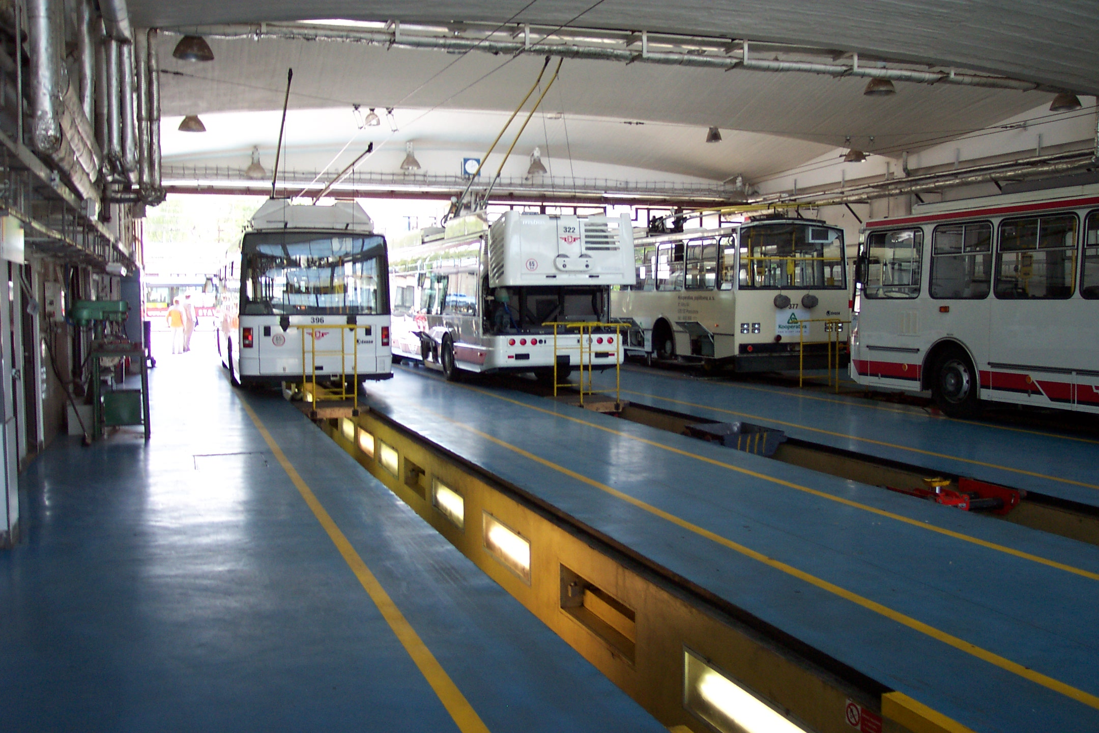 Various trolleybuses (predominantly czech) at the 55 years of trolleybus transport in Pardubice